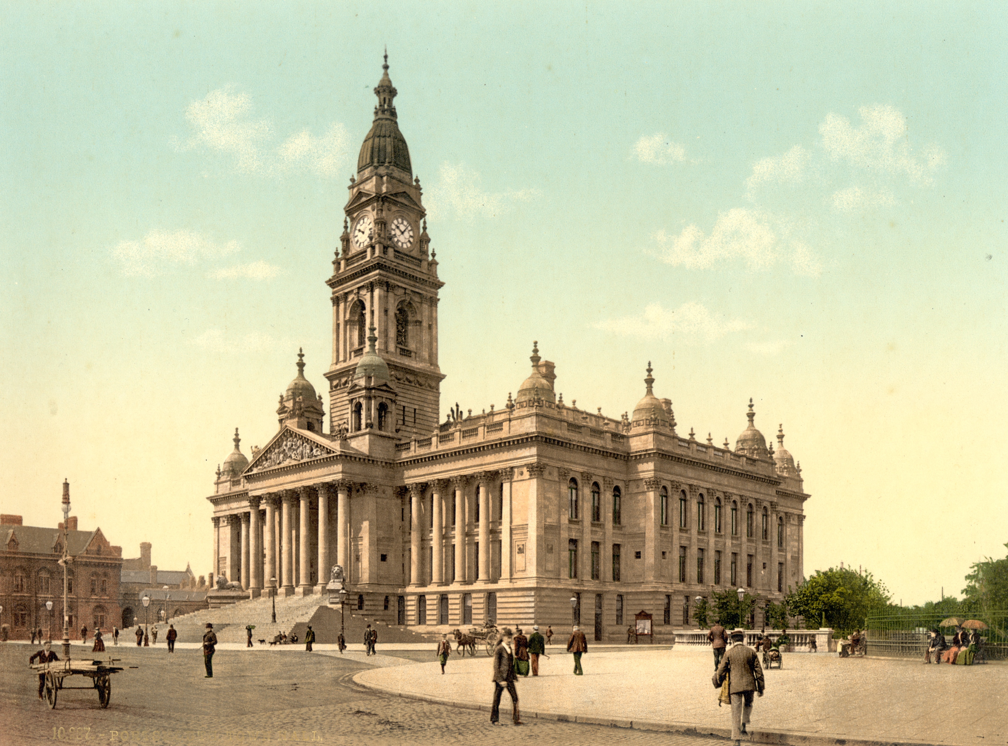 photochrom of portsmouth guildhall in 1905 showing it's appearance prior to damage and rebuilding during and after WW2